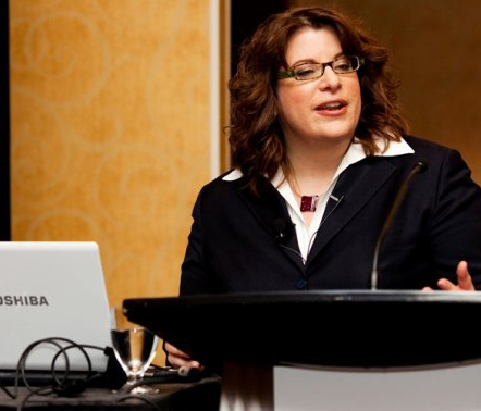 Lia Grimanis 2009